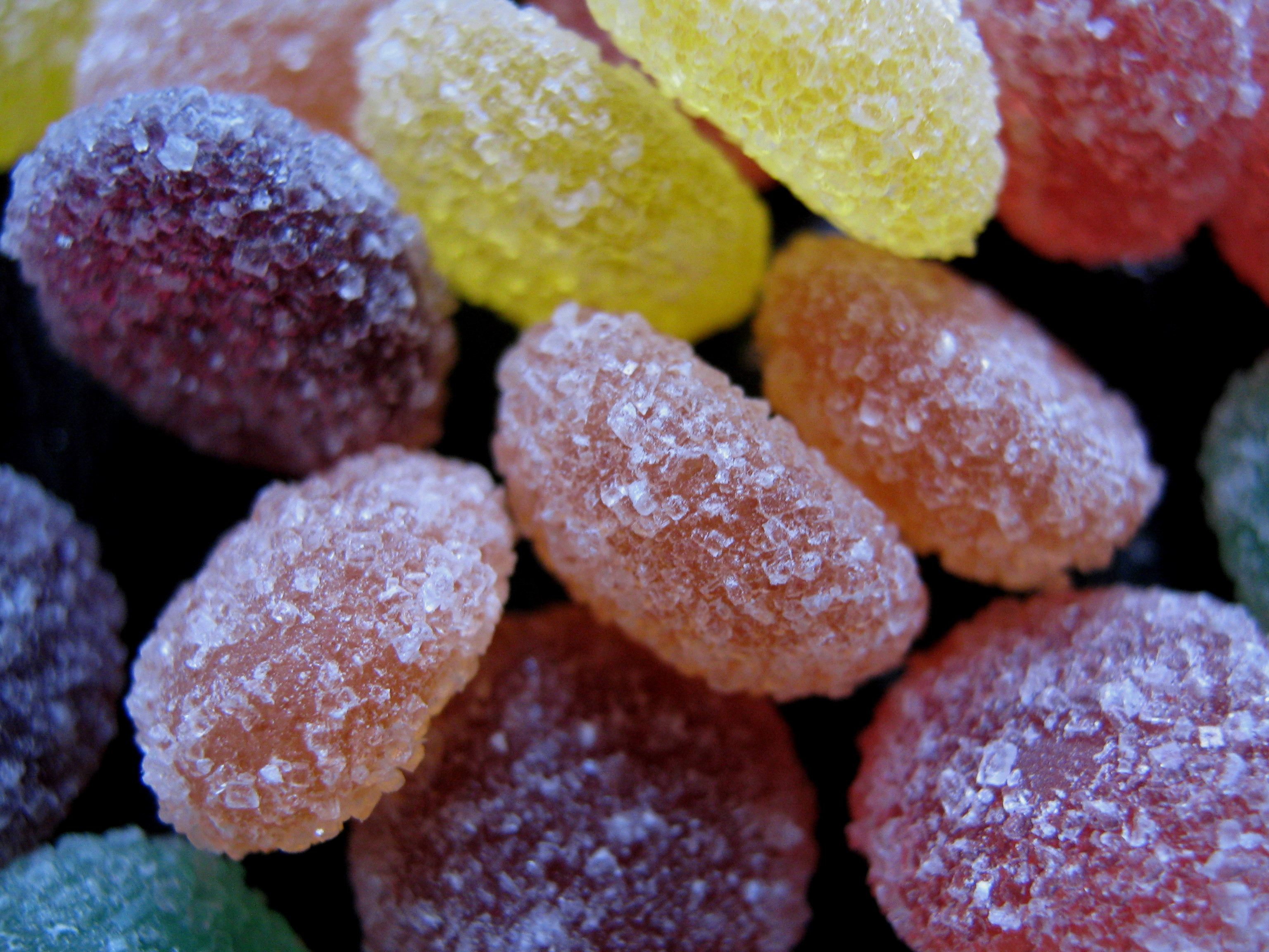 An image of Jelly Tots.